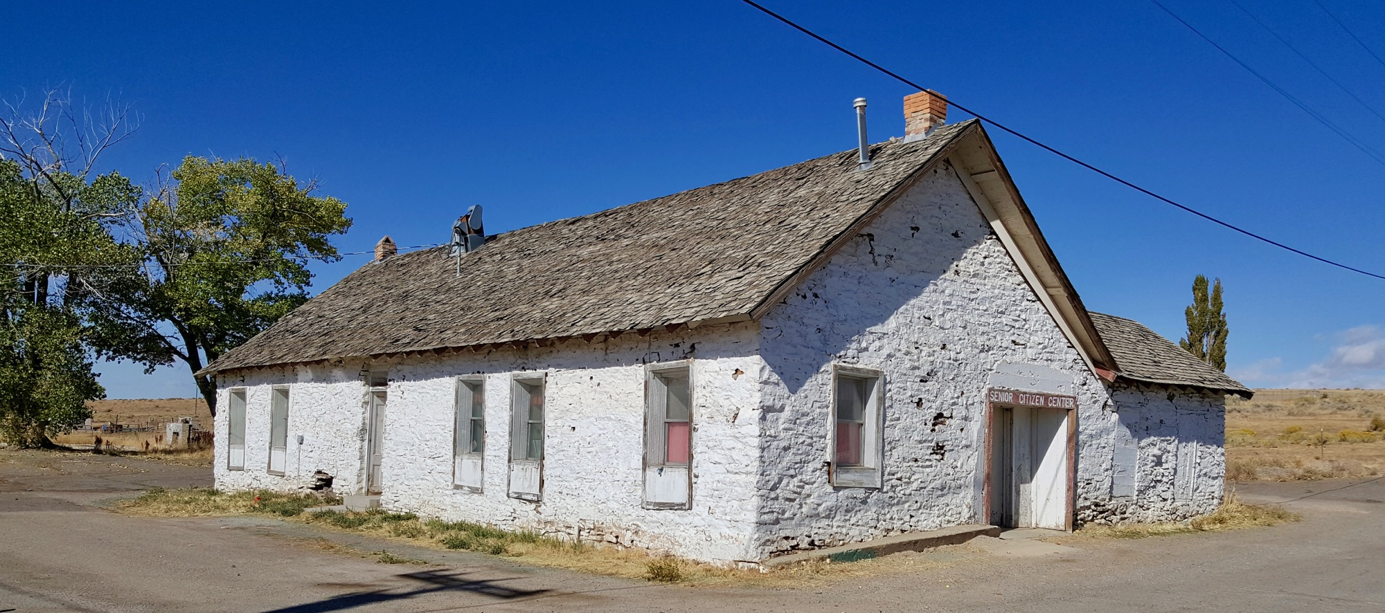 Fort McDermit Original Building, photo by John Stanton 11 Oct 2016